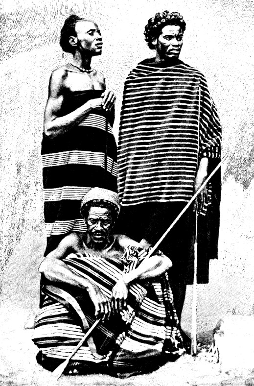 Isambo, king of Baras Iantsansas (Madagascar)